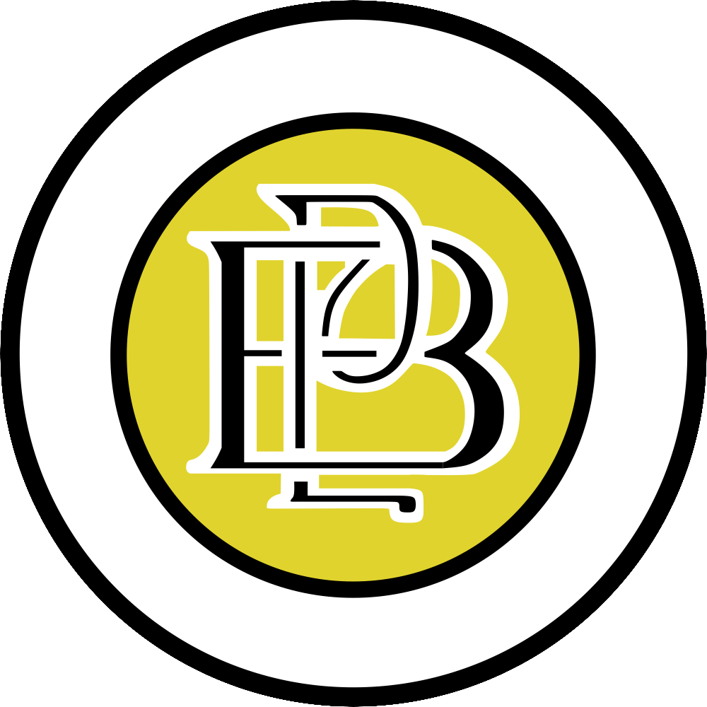 Logo of former german football club FC Preußen Biehla (1909-1945)